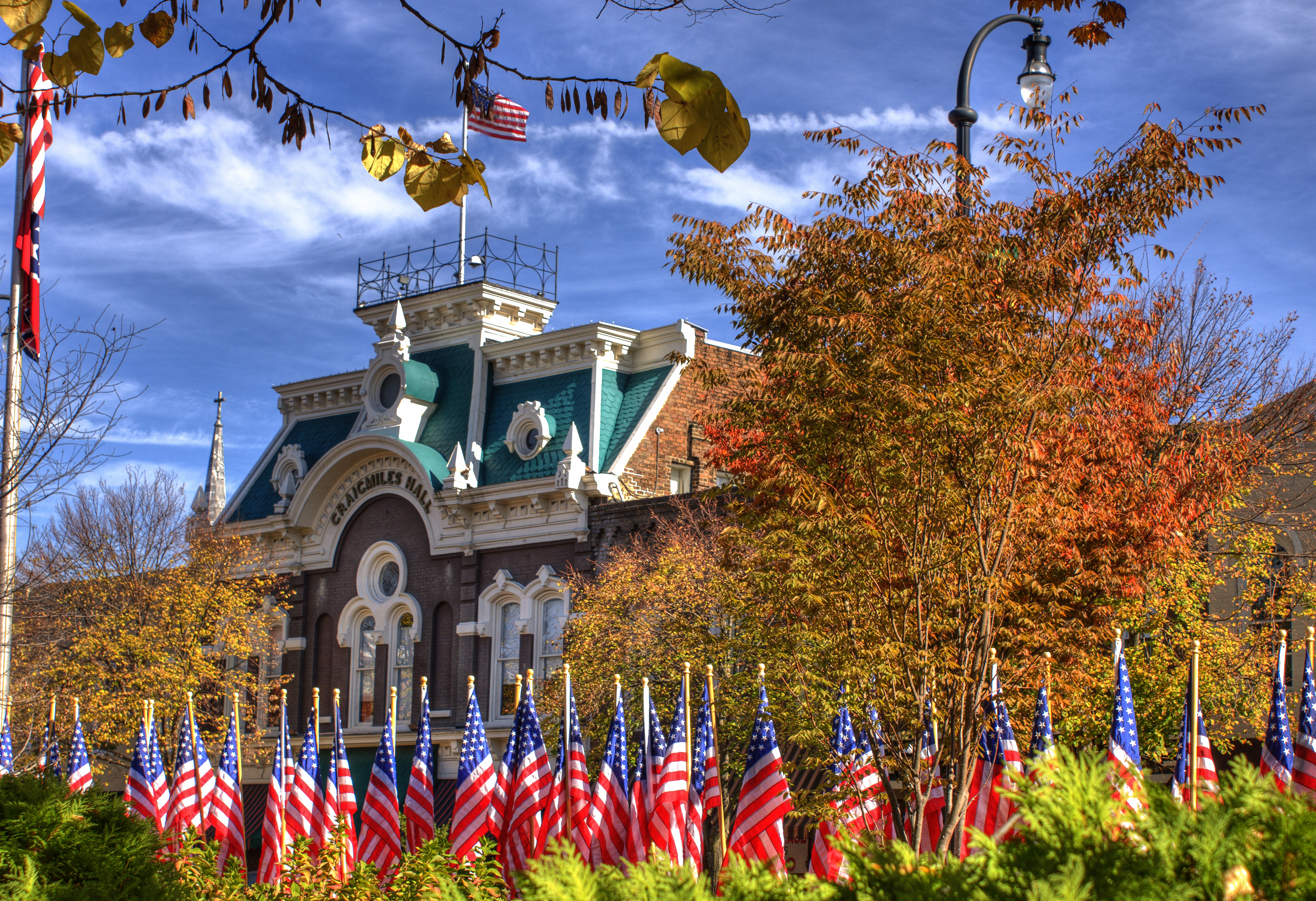 Craigmiles Hall is located in downtown Cleveland, Tennessee. Built in 1878, the building was used as an opera house for several decades and renovated in 1993 by local businessman Allan Jones.